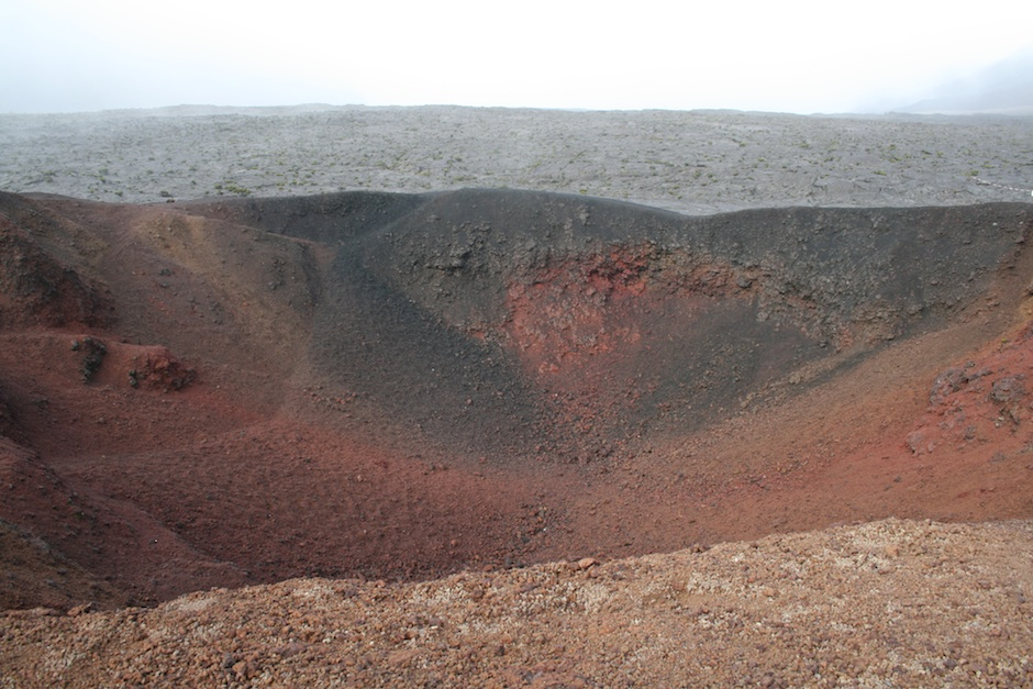 Inside the ancient volcanic crater Formica Leo on Réunion Island.